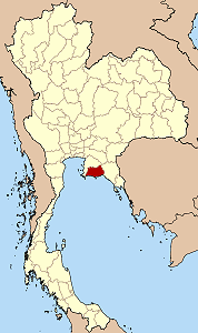 Map of Thailand highlighting Rayong province